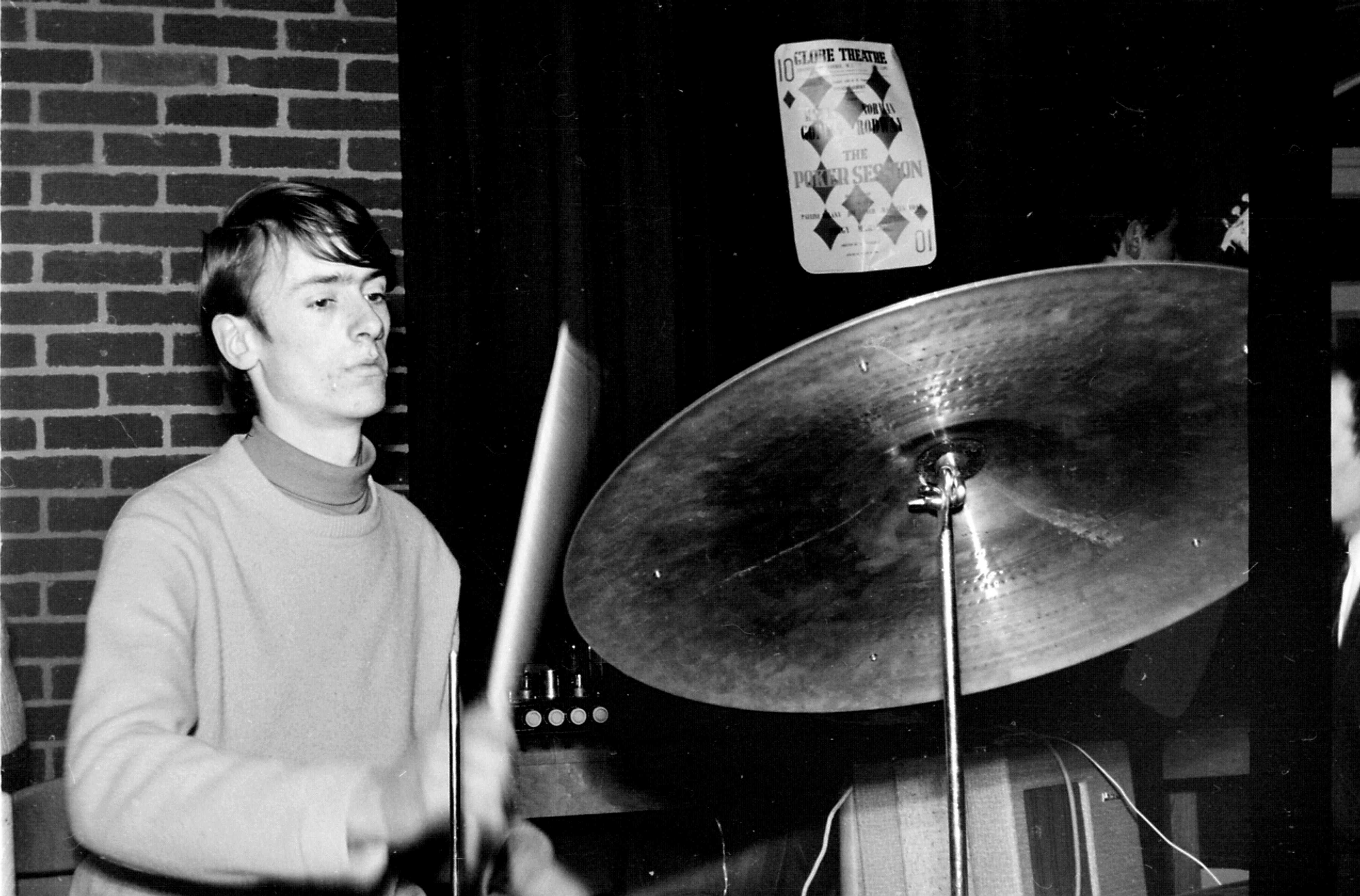 Grant Serpell Sussex University(1962-65)